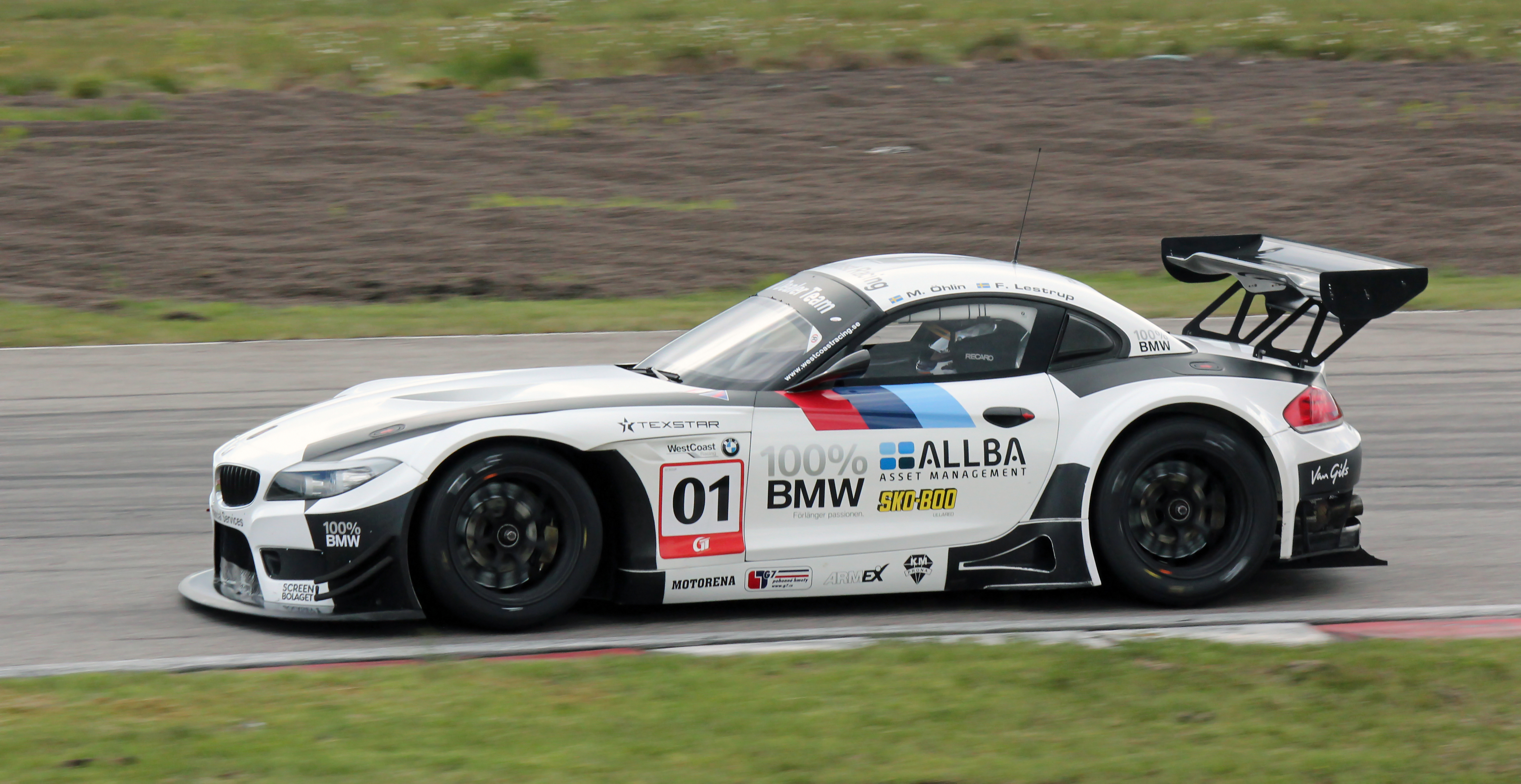 Fredrik Lestrup in a BMW Z4 GT3 for WestCoast Racing in Swedish GT Series at Anderstorp Raceway in 2012. His team mate was Martin Öhlin.